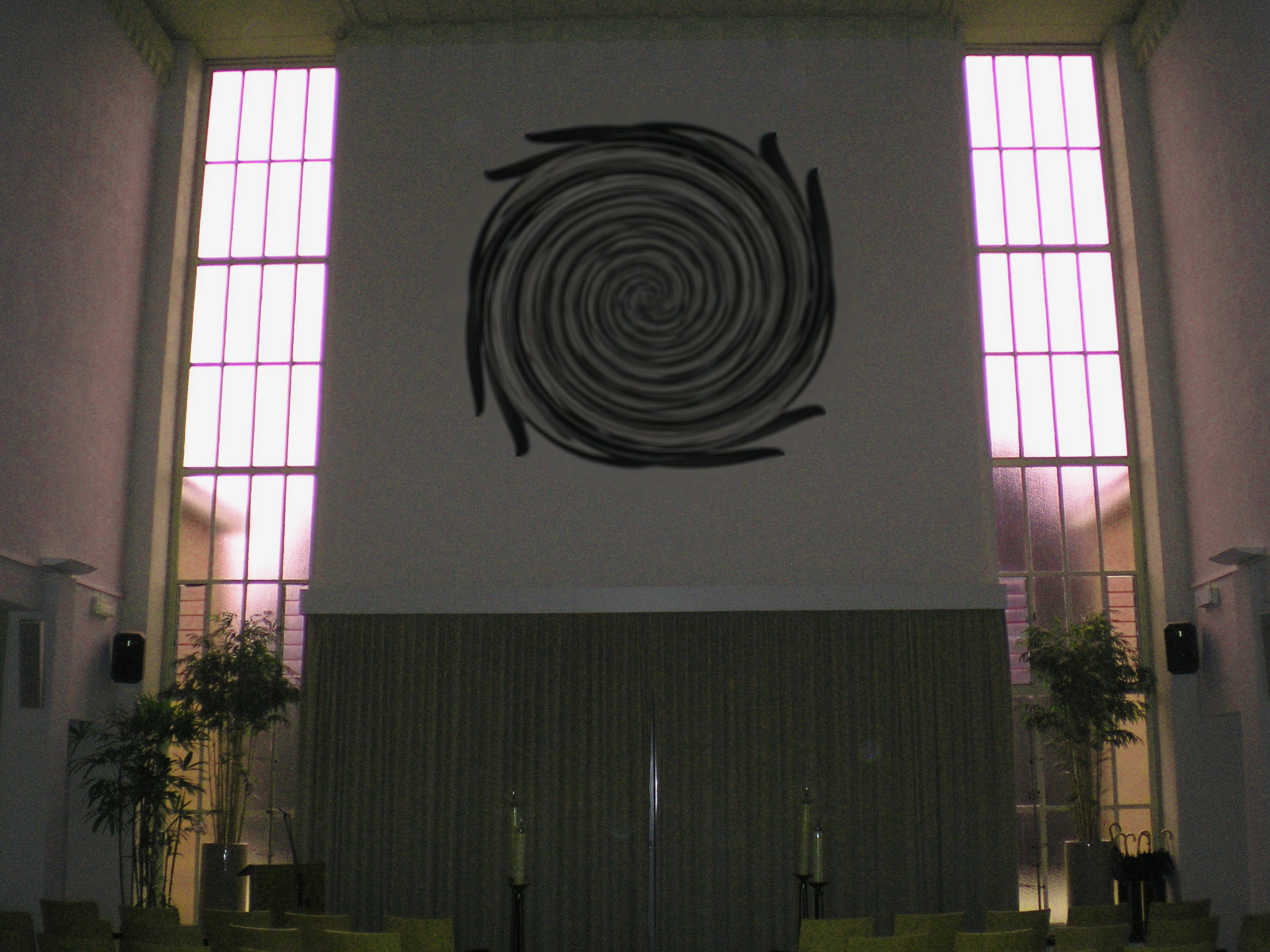 Wall painting of M.C.Escher in auditoriums Tolsteeg cemetery in Utrecht in the Netherlands